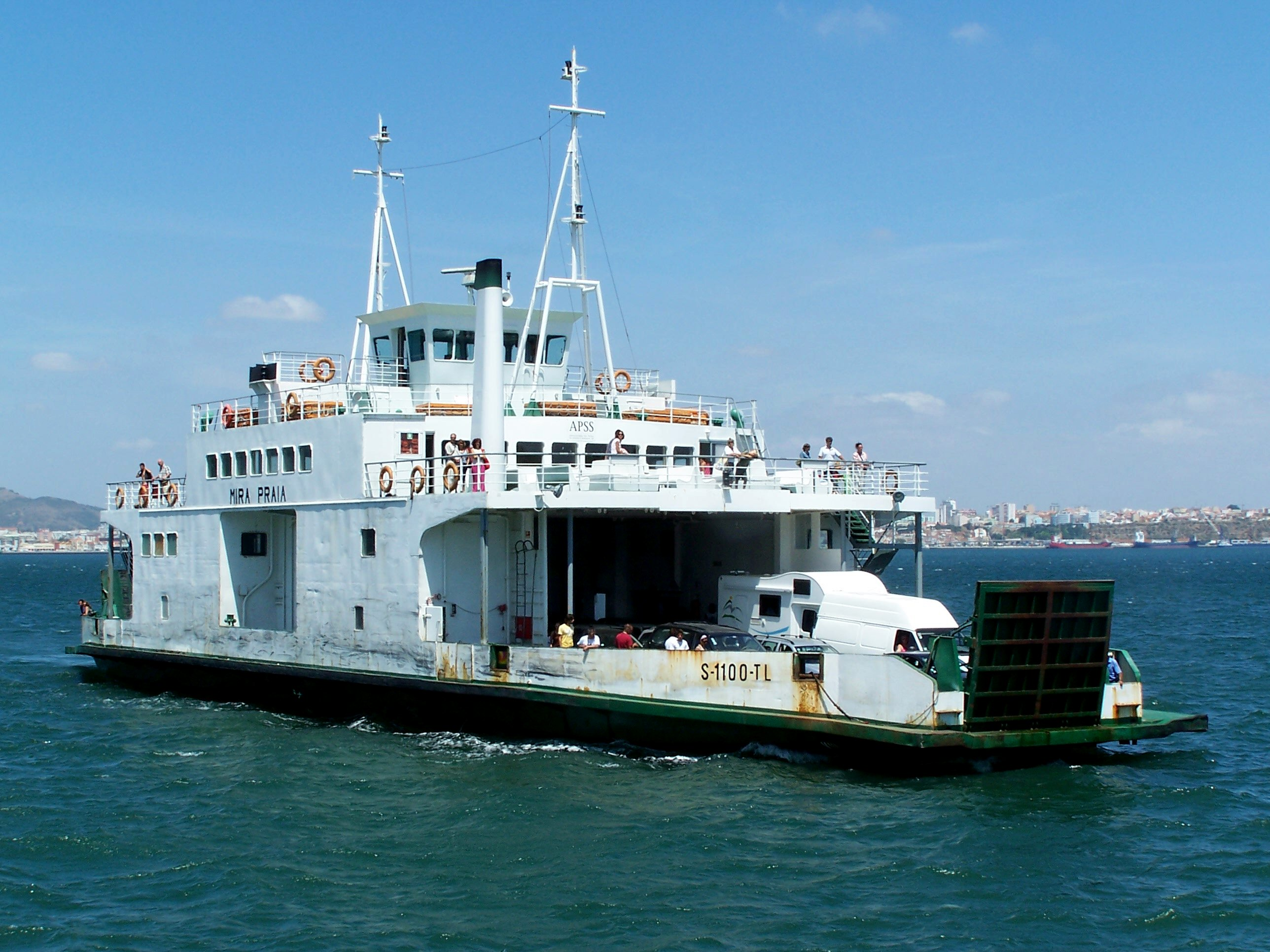 Ferry-Boat de Setúbal-Tróia - Setúbal. Name: Mira Praia Setúbal is a city and a municipality in Portugal with a total area of 172.0 km² and a total population of 118,696 inhabitants in the municipality. The city proper has 89,303[1] inhabitants. The municipality is composed of 8 parishes, and is located in the district of Setúbal.